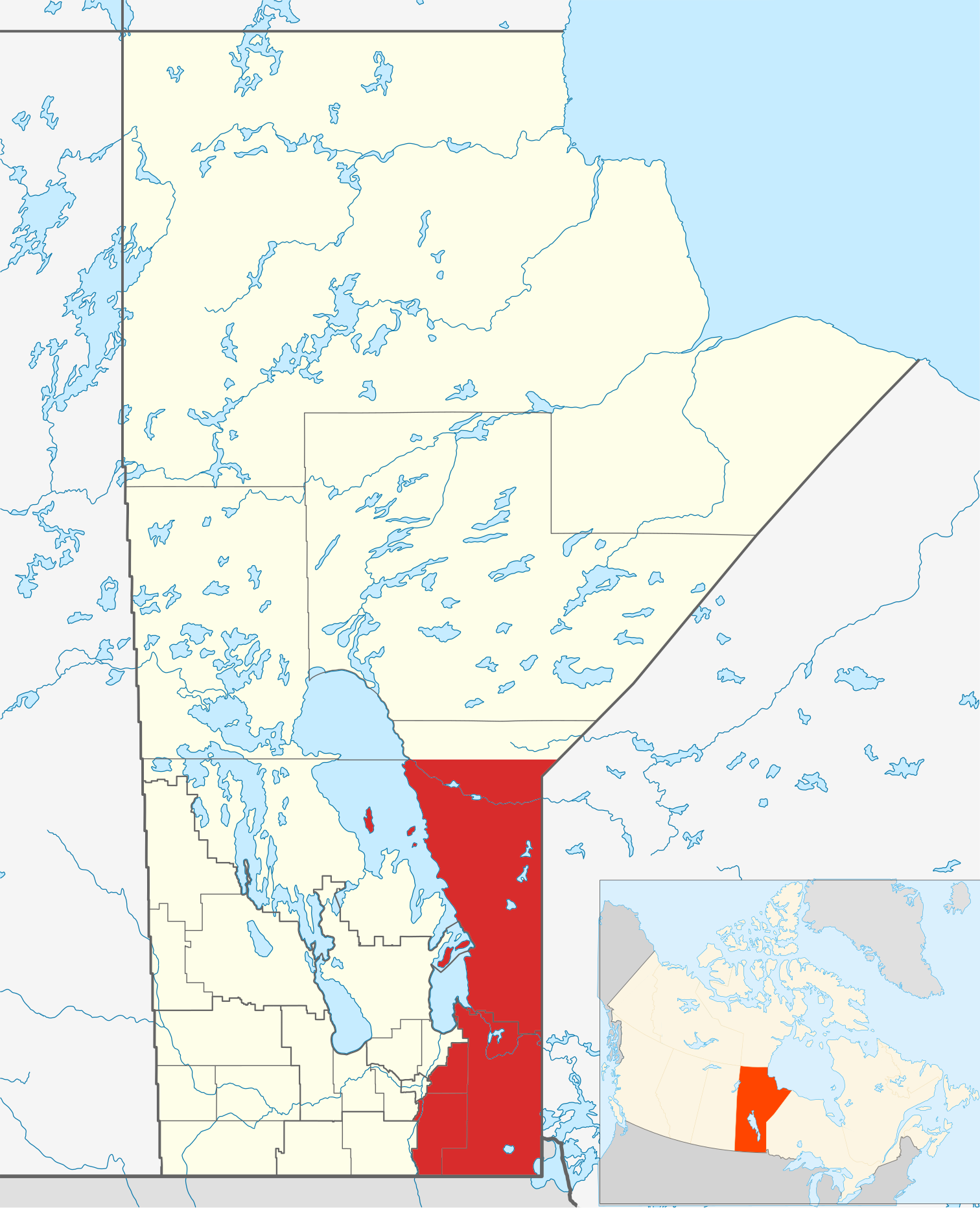 Location of Eastman Region in Manitoba, Canada.